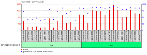 GEO c15orf39